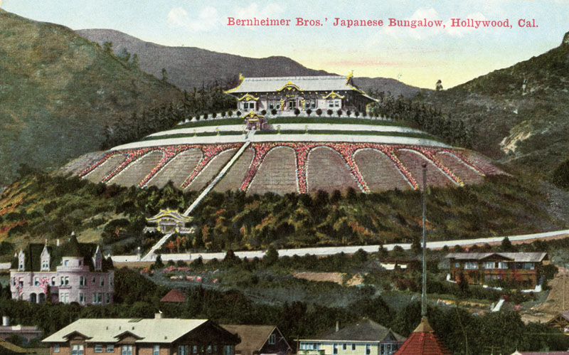 Color postcard of the estate of brothers Charles and Adolph Bernheimer, located at 1999 N. Sycamore Avenue in Hollywood. A printed note on the verso of the postcard reads: "No post card can tell the story of Hollywood--the beautiful foothill suburb which our party visited today. It is a most attractive city of fine homes, fine churches, schools, libraries, hotels and business houses, with no saloons and no pool rooms. Hollywood's view of the ocean, of the great city of Los Angeles, and of the mountains is magnificent. Its convenience to the big city, the sea and the mountain canyons cannot be surpassed. With a population of 12,000 it boasts one million dollars worth of new homes in 1914. We emphasize the statement that Hollywood is one of the finest residential cities of the world."